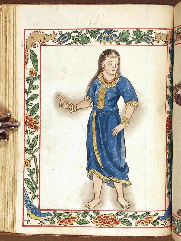 Native of visayan origin from „Boxer codex“, page 22 (manuscript)